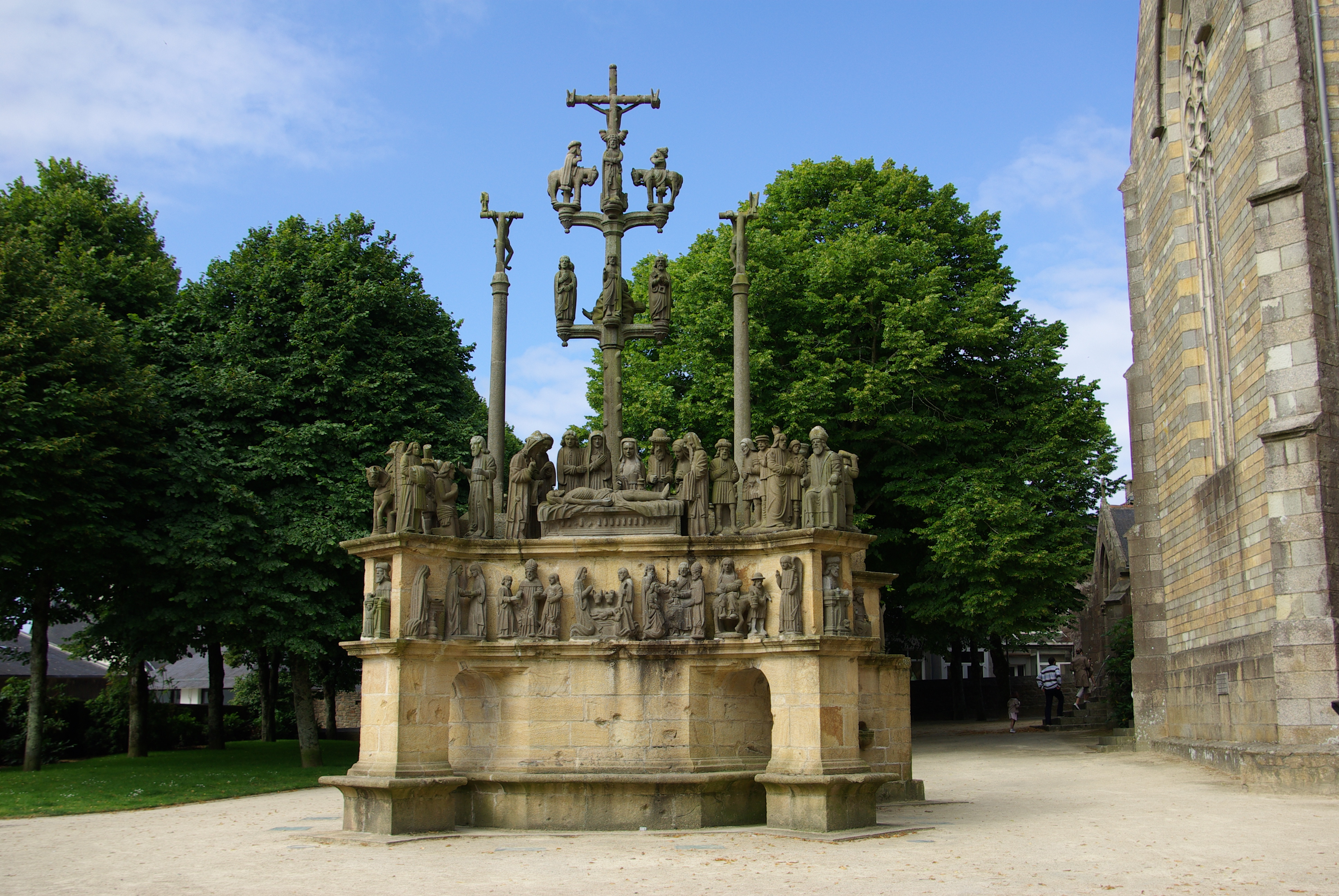 Calvary of Plougastel-Daoulas (Finistère, France)